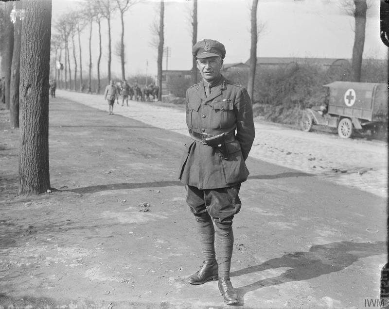 The Official Visits To the Western Front, 1914-1918 General Reginald Pinney, the Commander of the 33rd Division, awaiting the arrival of Georges Clemenceau, the French Prime Minister. Cassel, 21 April 1918.